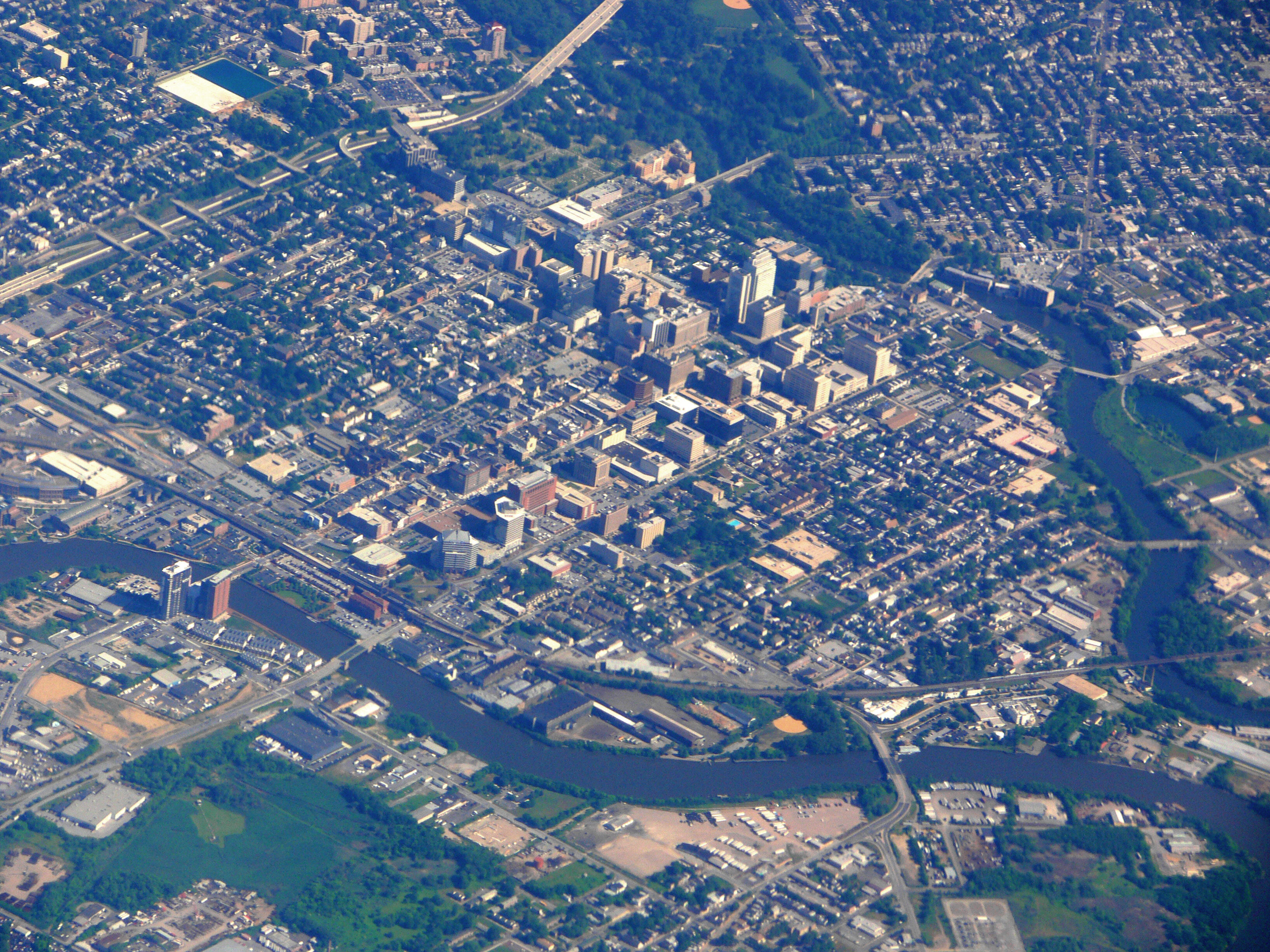 Wilmington, Delaware, seen from an airplane: Christina River at bottom; Brandywine Creek across top right.